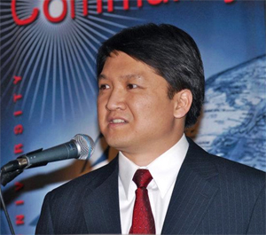 Thomas Huynh, keynote speaker at 2012 International Business Conference, Northeastern Illinois University. Chicago, Illinois, USA. February 28, 2012.